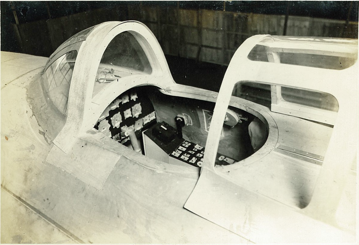 The cockpit of the wooden mockup of the Tachikawa Ki-94-I interceptor